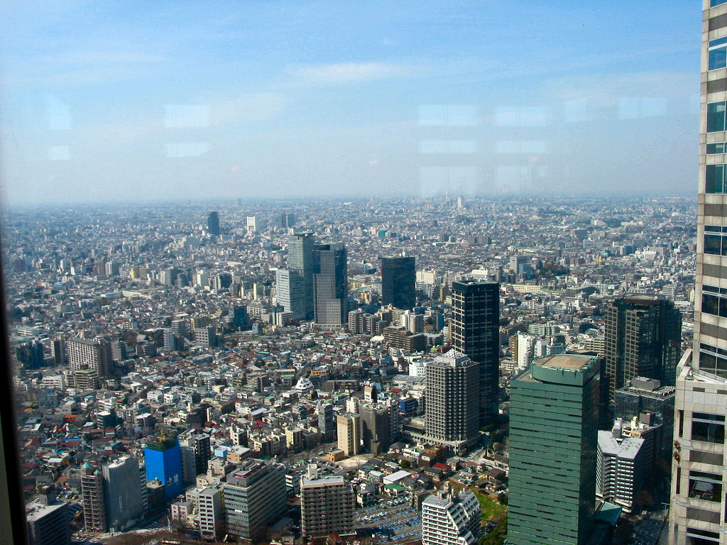 Tokyo skyline, taken from Metropolitan Government building by Ningyou.